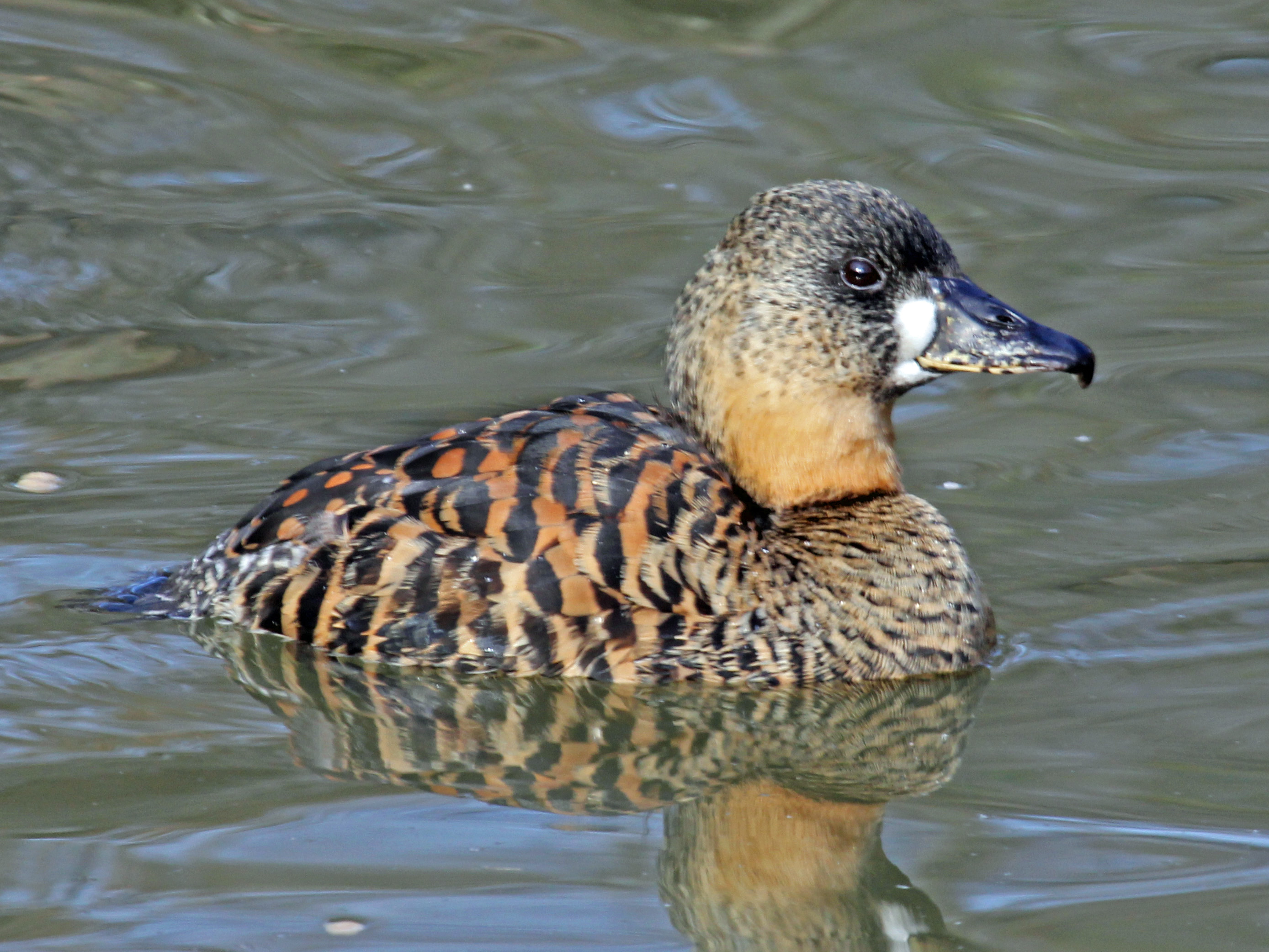 White-backed Duck (Thalassornis leuconotus) at Sylvan Heights Waterfowl Park in Scotland Neck, North Carolina